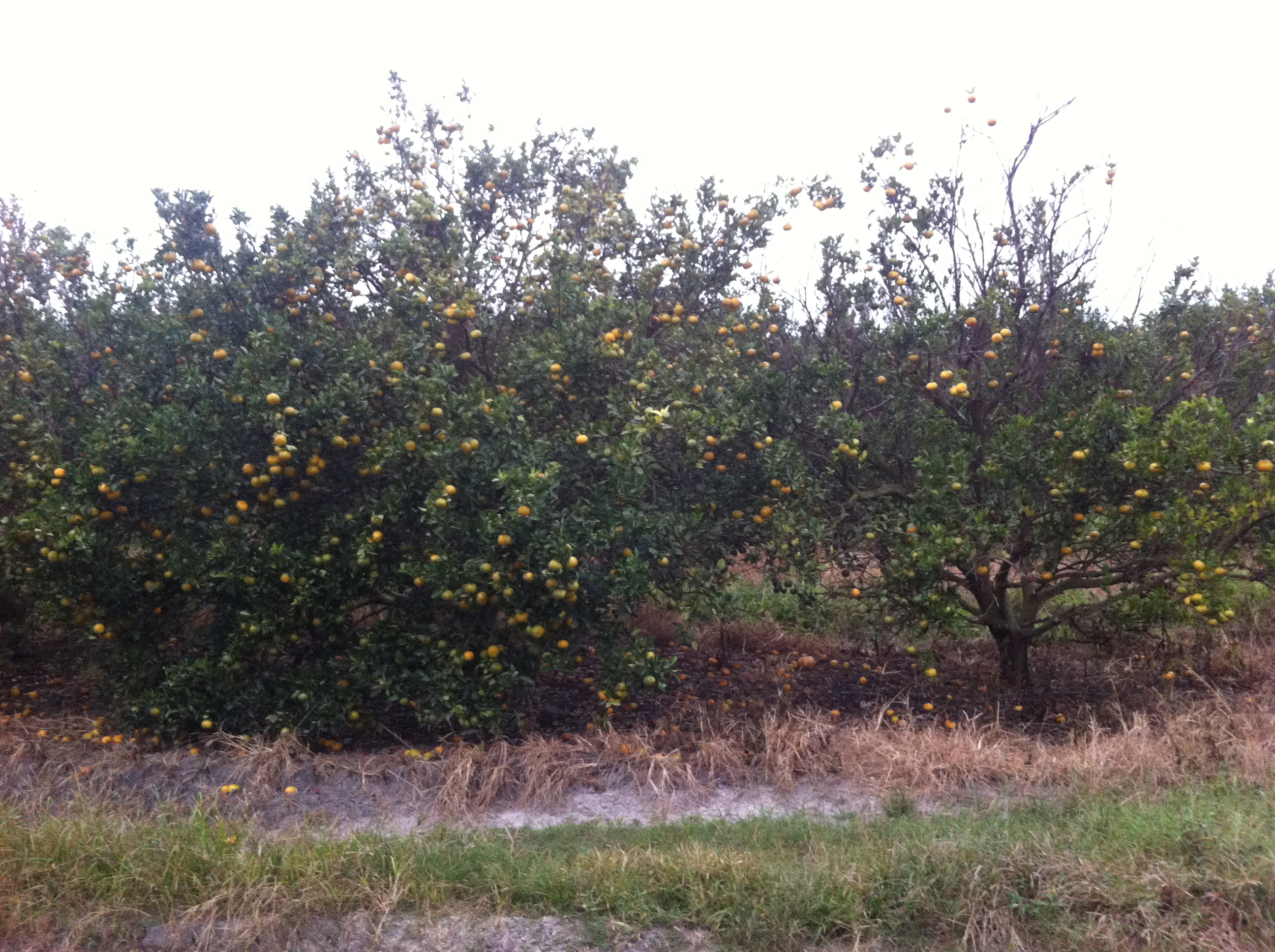 An example of Citrus greening disease. Tree on left is negative for greening or just recently infected, while tree on right has advanced levels of citrus greening infection